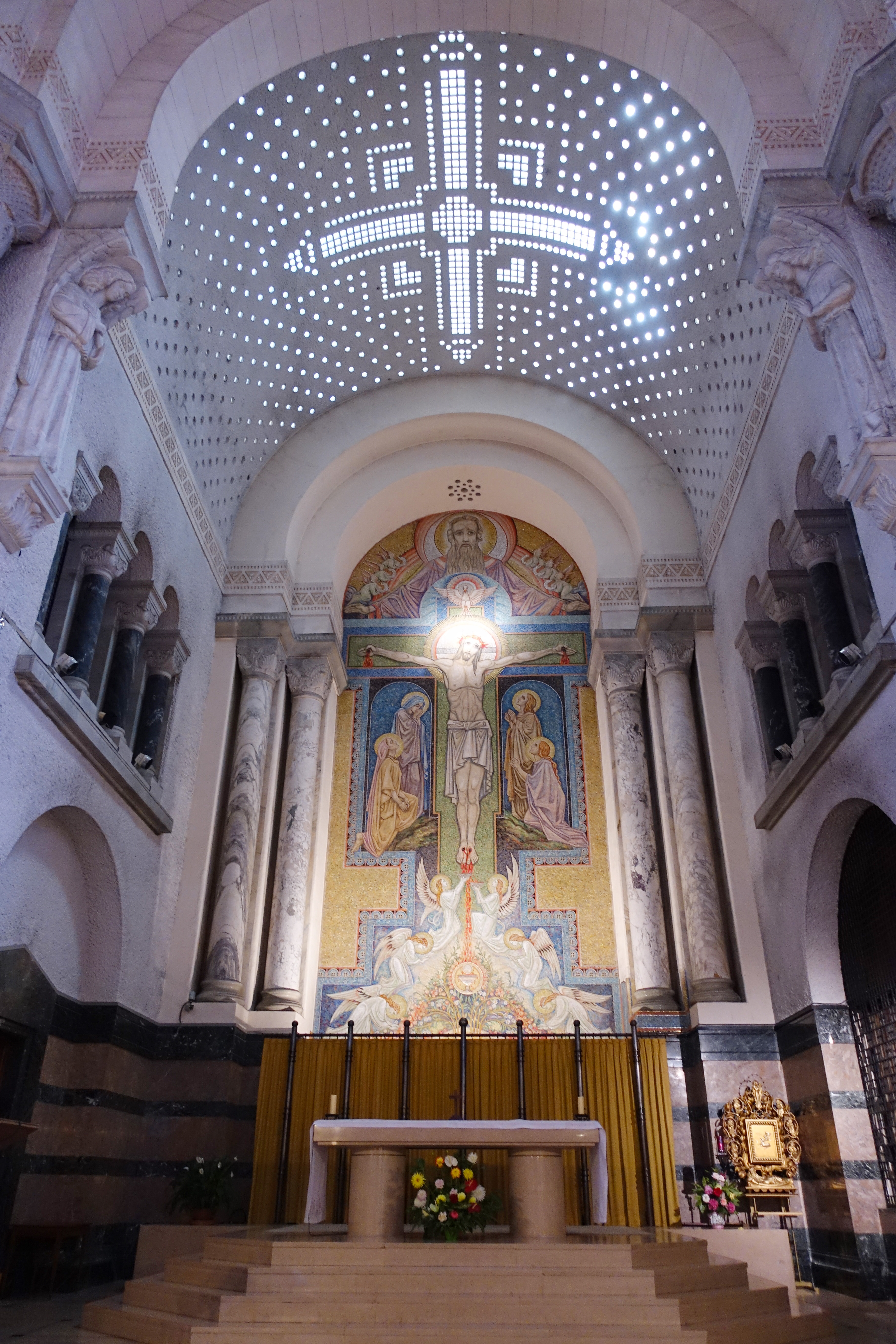 Basilique de la Visitation in Annecy.